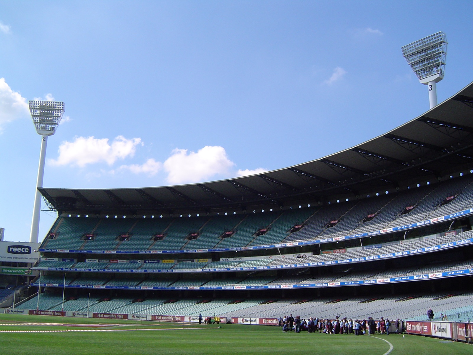 The Melbourne Cricket Ground